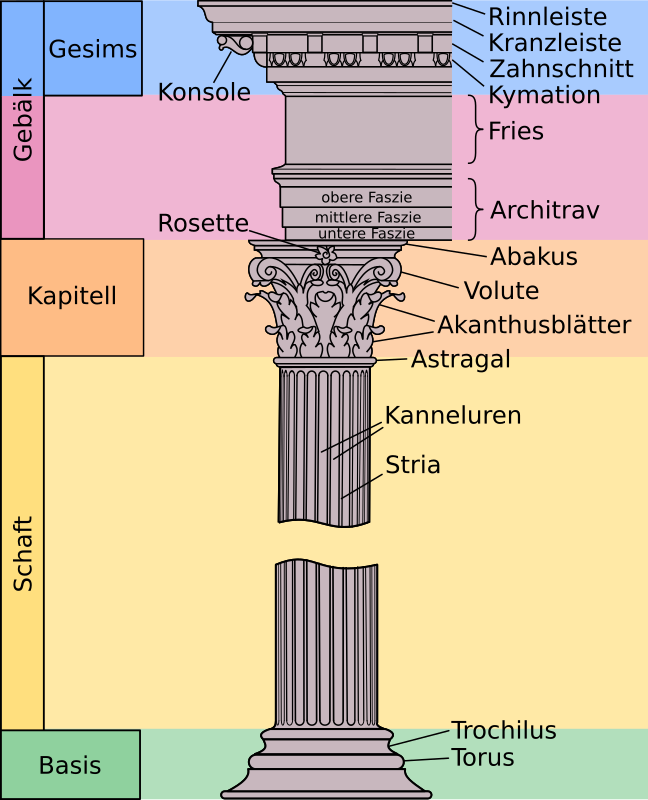 corinthian column